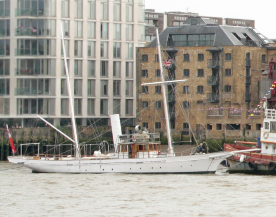 Tall ship, the Amazon, Saturday 2 June before the Diamond Jubilee Pageant of Queen Elizabeth II next day